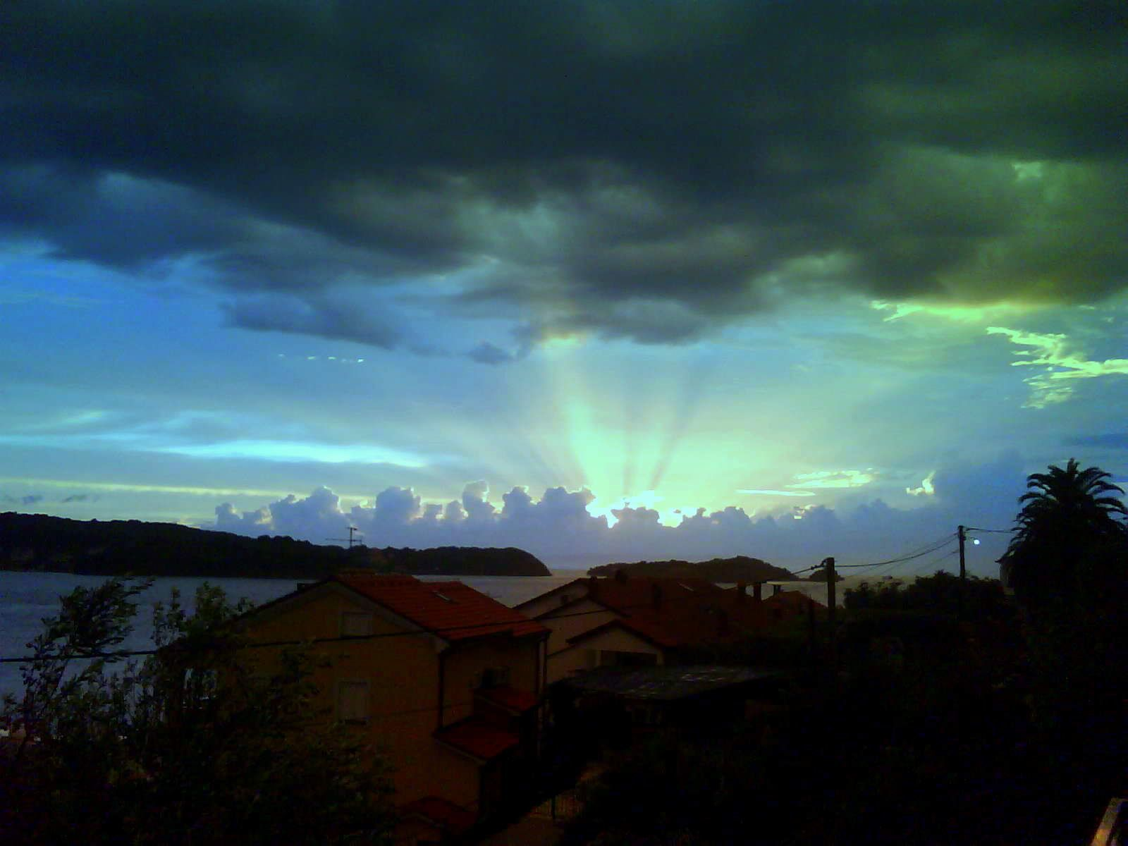 Supetarska - After the rain ( The view from my house )